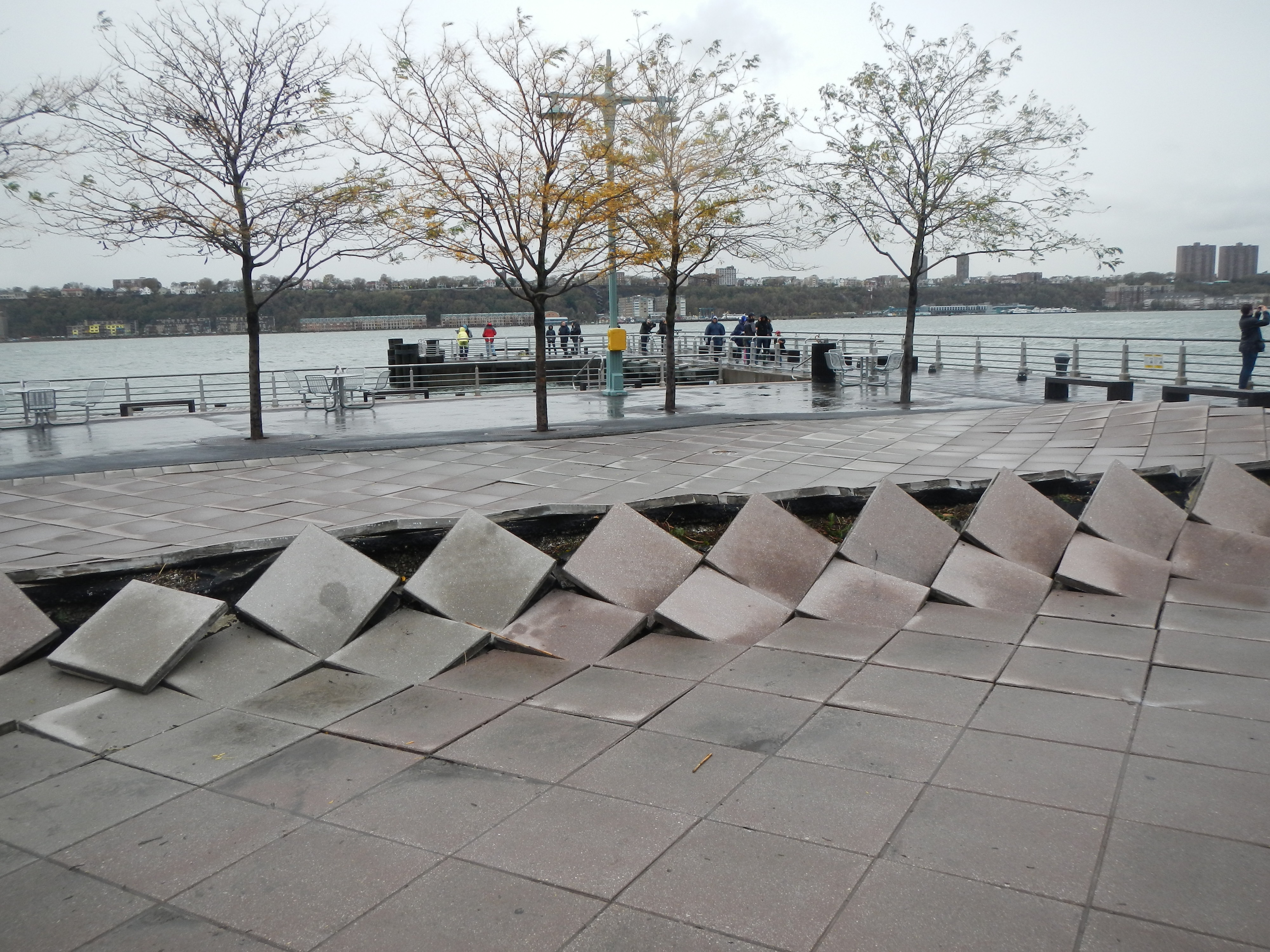 Looking northwest the morning after, at tiles apparently heaved upward by waves near the end of Pier 84.